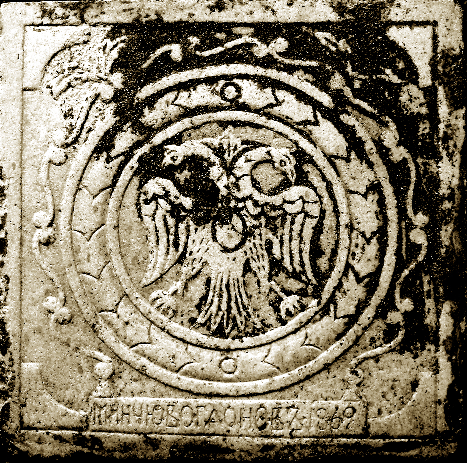 Church Sveta Troitsa 1869 builder Mincho Bogdanov inscription of the coat of arms of the Bogdanov family